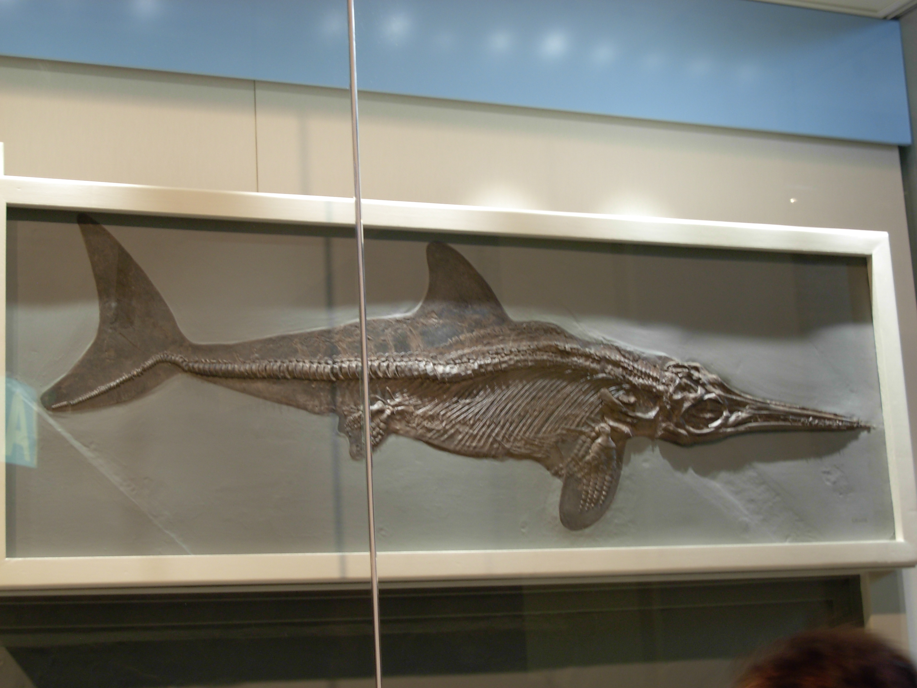 Note: not a dinosaur but an ichthyosaur